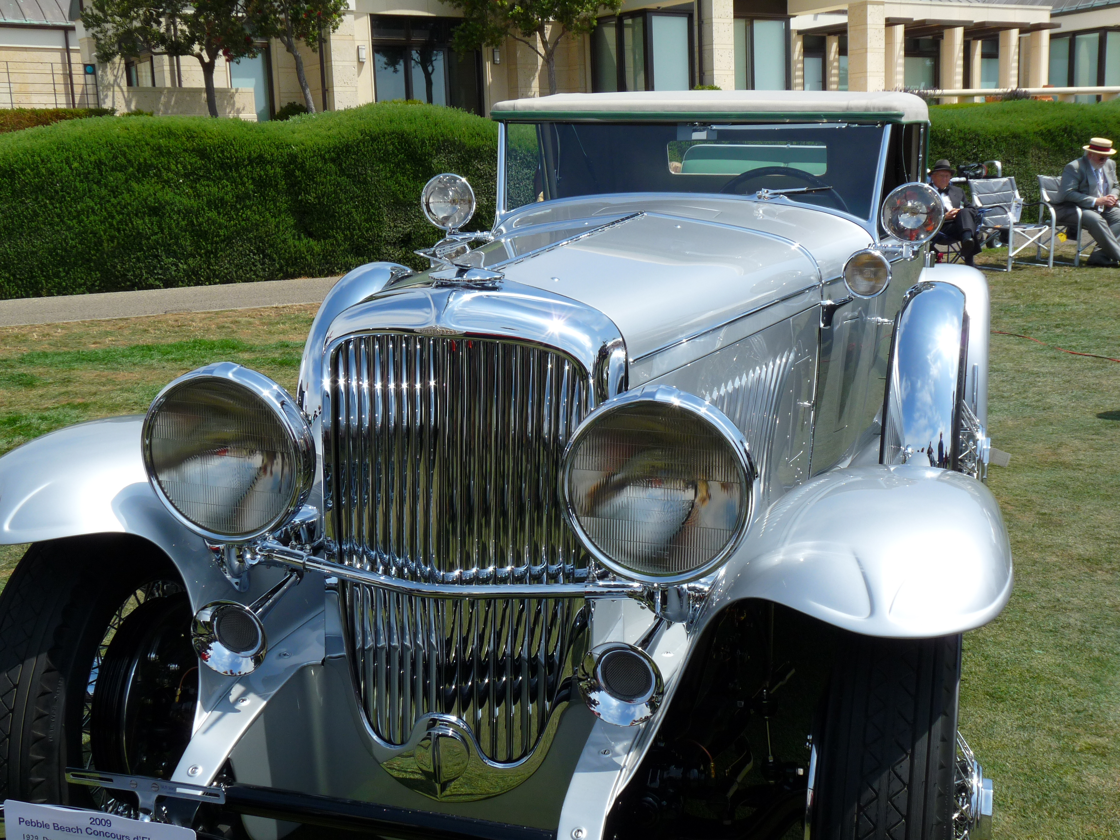 1929 Duesenberg J Murphy Convertible Coupe